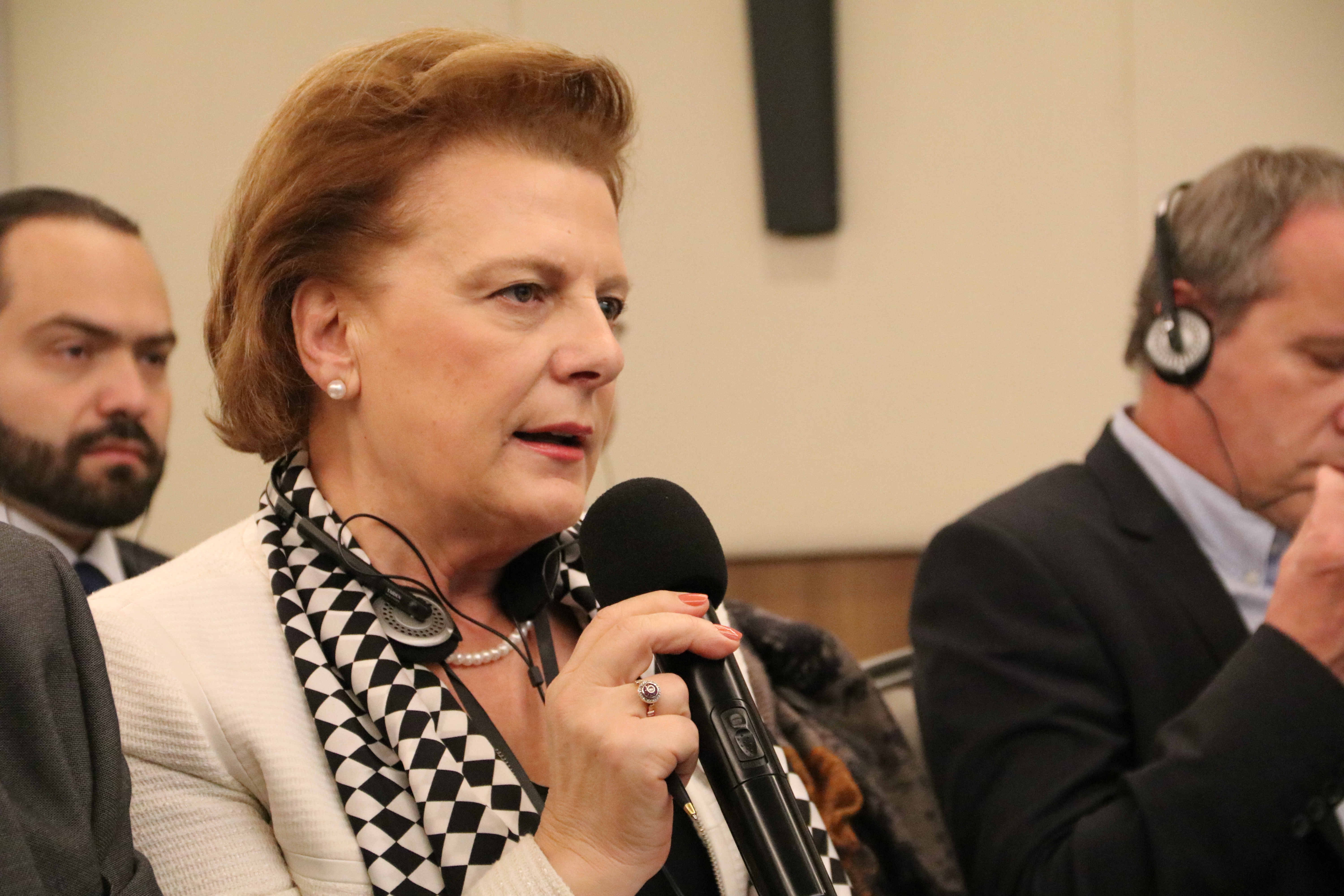 PACE member Valentina Leskaj (Albania), Chisinau, 29 October 2016